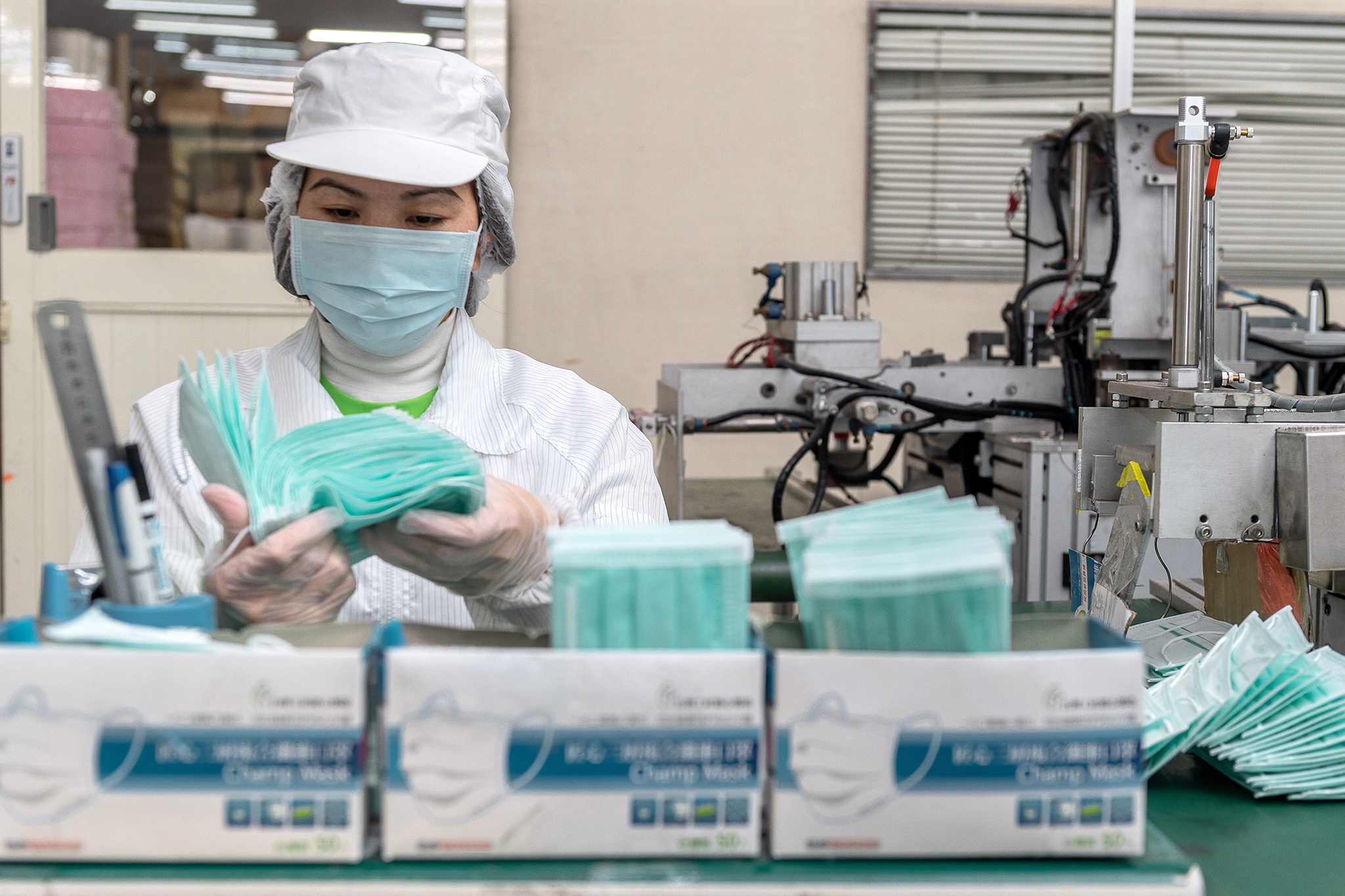 Official Photo by Makoto Lin / Office of the President